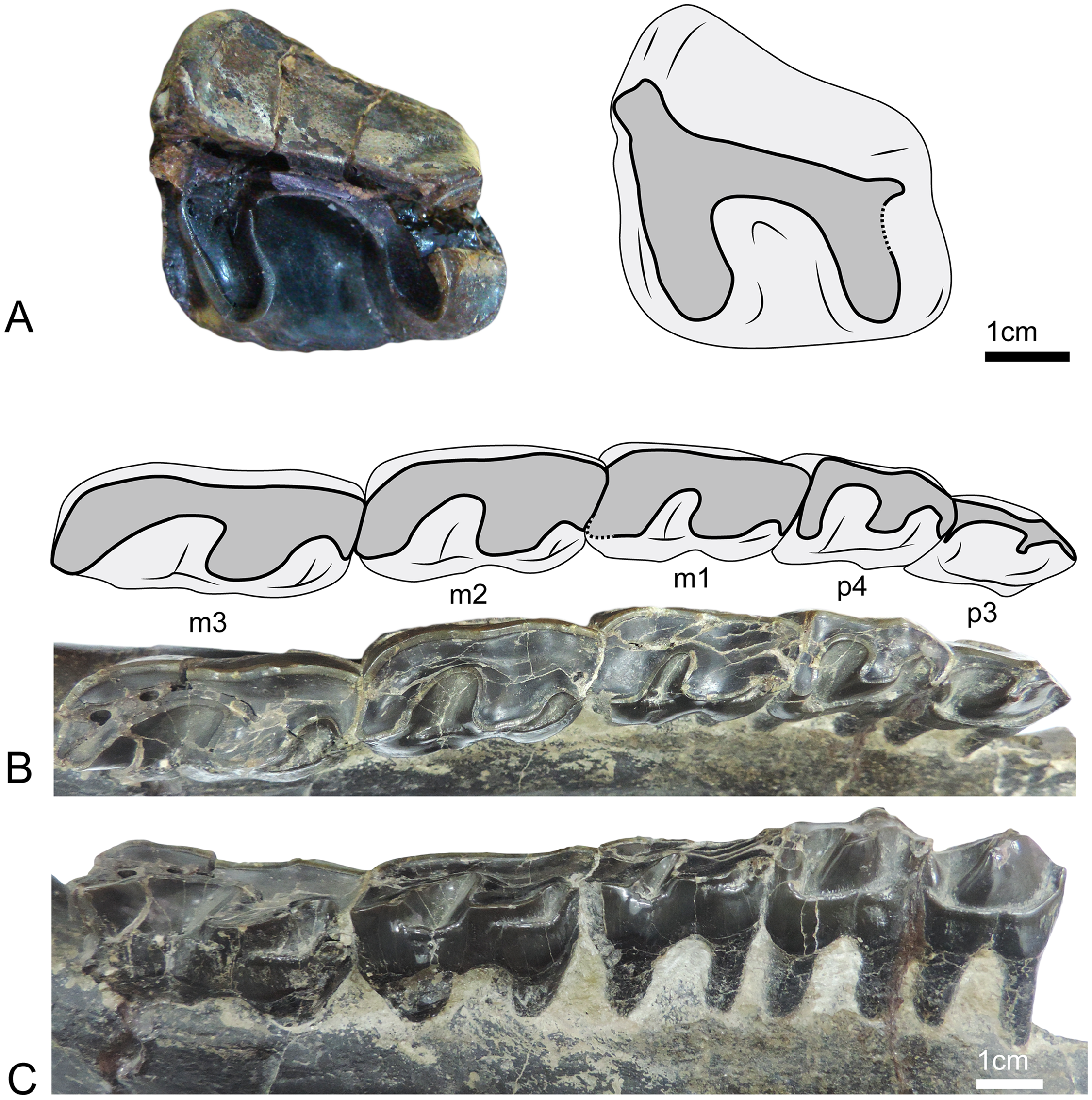 Sellamynodon, dentition of Sellamynodon zimborensis; UBB MPS 15795 (holotype); A: Left M3 in occlusal view; B-C: Left lower cheek teeth (p3-m3) in occlusal (B) and lingual (C) views; Dobârca (Romania); Upper Eocene-Lower Oligocene